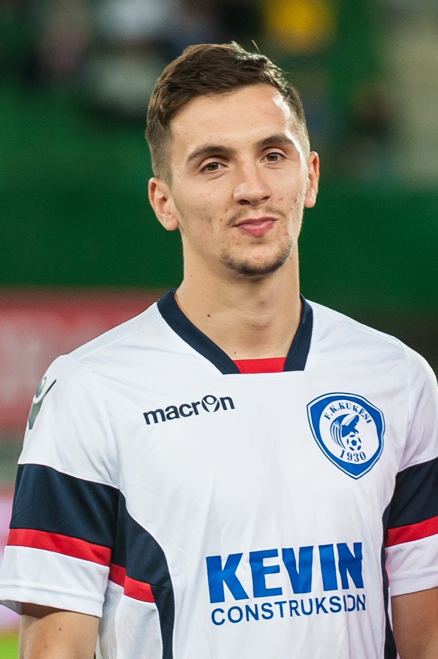 UEFA Europa League - FK Austria Wien vs FK Kukesi, 2016-07-14.